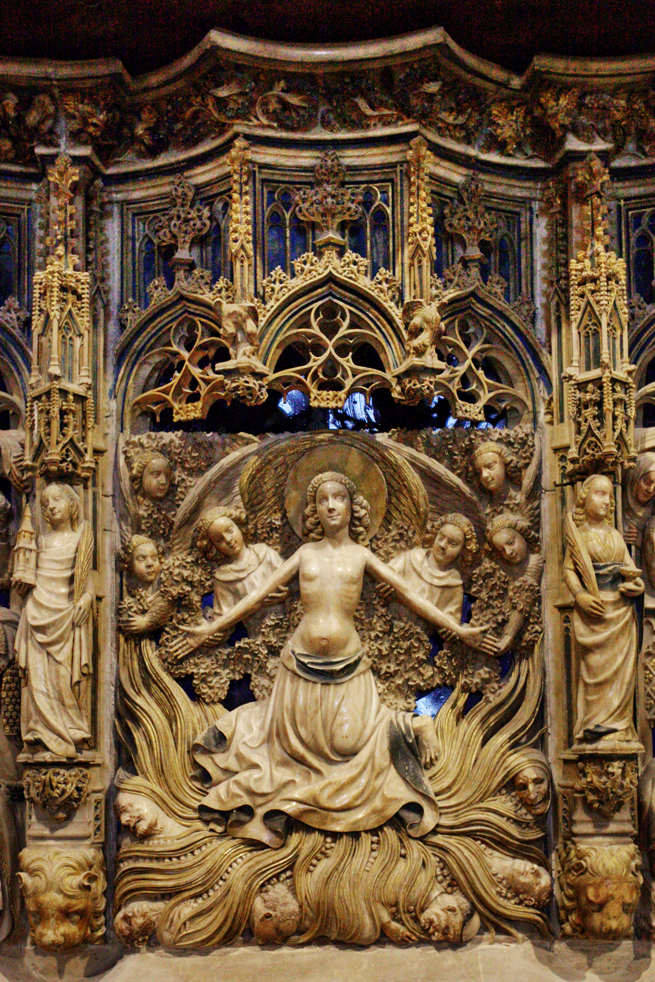 Fragment of the gothic altarpiece of St. Thecla, Cathedral of Tarragona, by Pere Joan, 1426